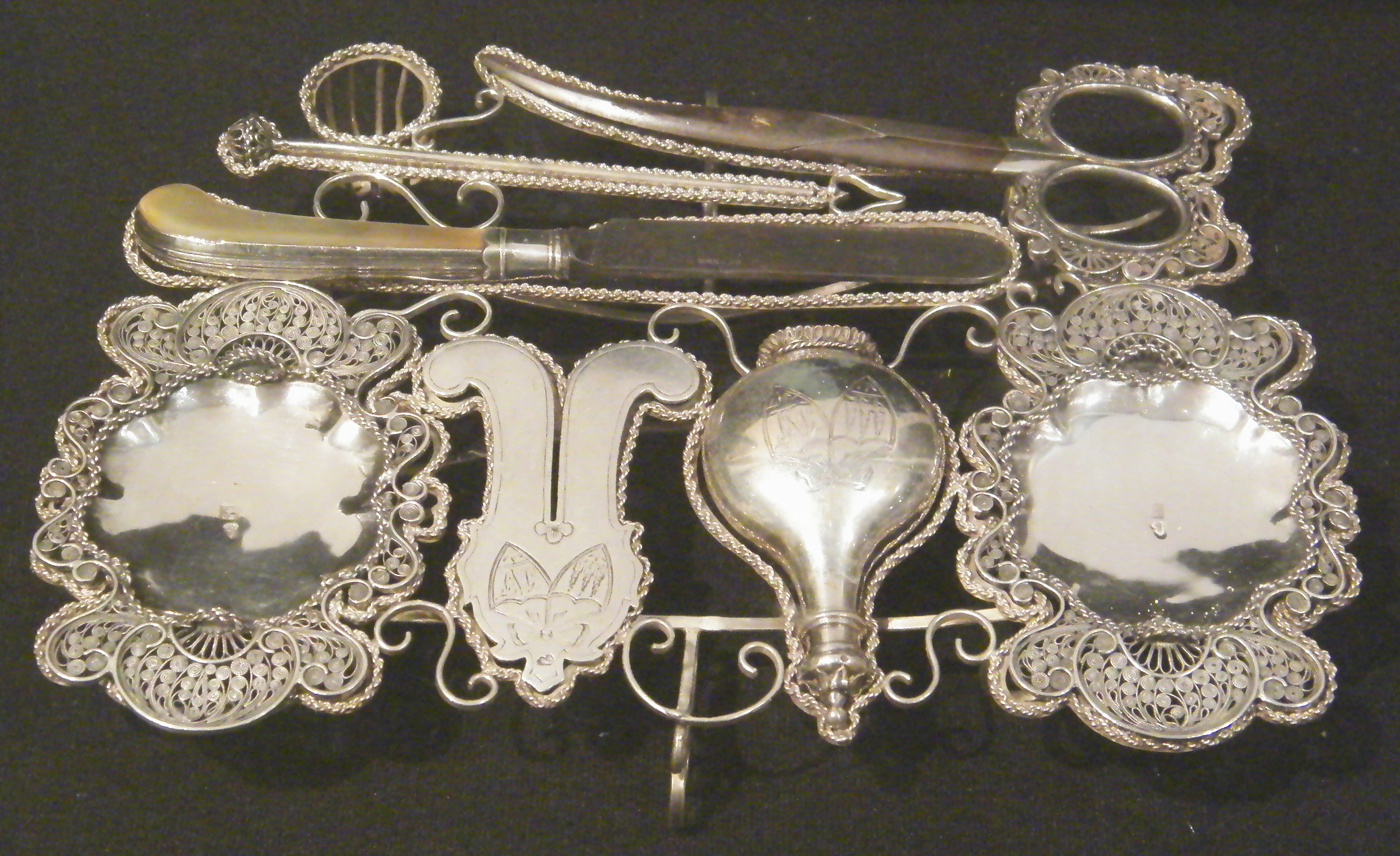 Circumcision Set Circumcision Set of the Torres Family Netherlands, 1827 and 1866 Box: silver: filigree, cast and hammered; inlaid with semiprecious stones Utensils: silver: cast, filigree, and hammered; carved mother-of-pearl Box: 9 1/2 x 7 3/8 x 4 1/8 in. (24.1 x 18.7 x 10.5 cm) The Jewish Museum, New York The H. Ephraim and Mordecai Benguiat Family Collection, S 232a,b Wikipedia Loves Art at the Jewish Museum (New York City) This photo of item # S-232a,b at the Jewish Museum (New York City) was contributed under the team name "The_Grotto" as part of the Wikipedia Loves Art project in February 2009. Jewish Museum (New York City) The original photograph on Flickr was taken by cjn212—please add a comment to the original Flickr page whenever a use has been made on Wikipedia or another project. Project galleries on Flickr: this institution, this team